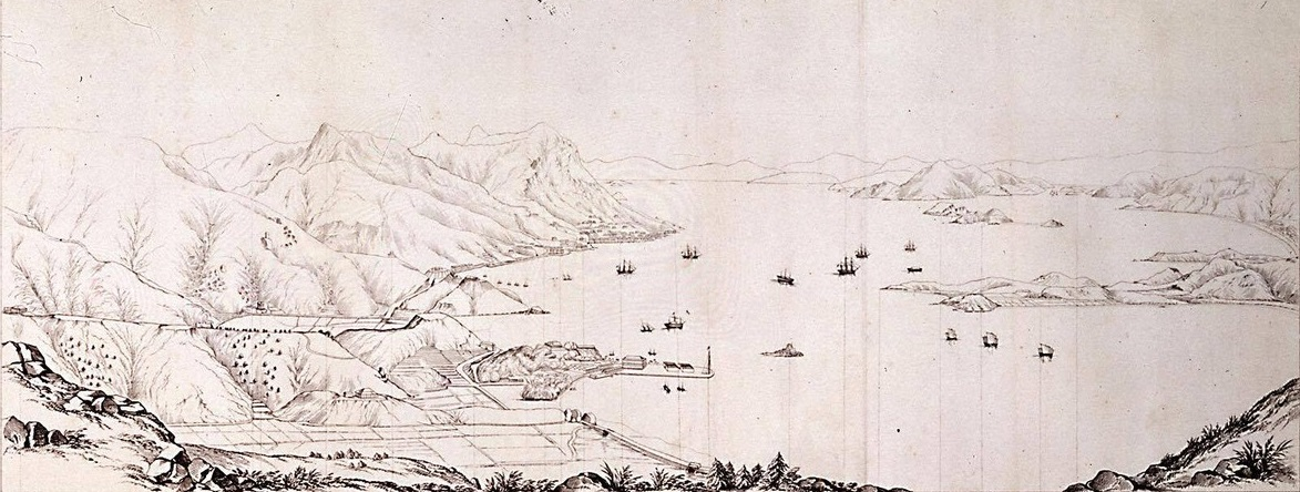 The Victoria Harbour drawn by Thomas Bernard Collinson in 1845. Thomas Bernard Collinson was an English naval surveyor of the Royal Engineers. He carried out the earliest British surveys and also produced early detailed sketches of Hong Kong.